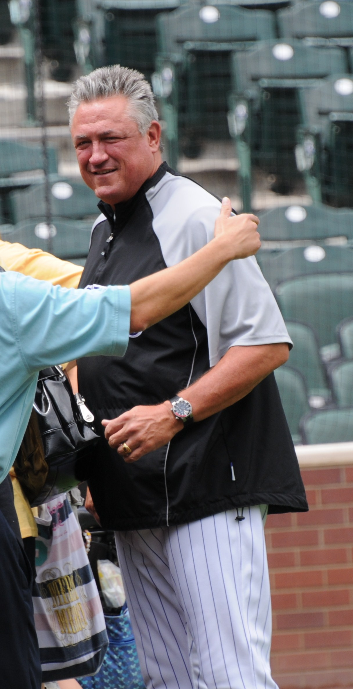 Description own work DateSourceI created this work entirely by myself.AuthorOnetwo1 (talk) 15:56, 8 August 2008 . . Onetwo1 . . 1,216×2,372 (435 KB) own work